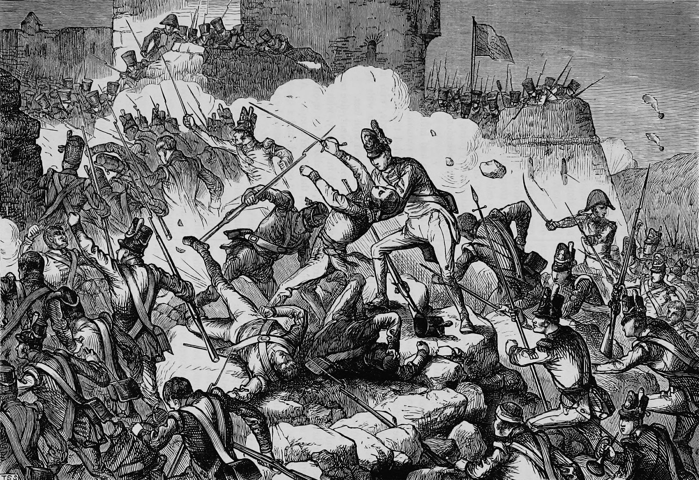 British infantry storm the fortress at Ciudad Rodrigo during Wellington’s campaign in Spain.